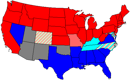 Summary of party control of U.S. house seats in the 54th United States Congress following election. Stripes indicate a tie between two or more parties. Legend: 80.1-100% Democratic seat majority 60.1-80% Democratic seat majority 60% or less Democratic seat plurality 60% or less Republican seat plurality 60.1-80% Republican seat majority 80.1-100% Republican seat majority 60% or less Populist seat plurality 60.1-80% Populist seat majority 80.1-100% Populist seat majority